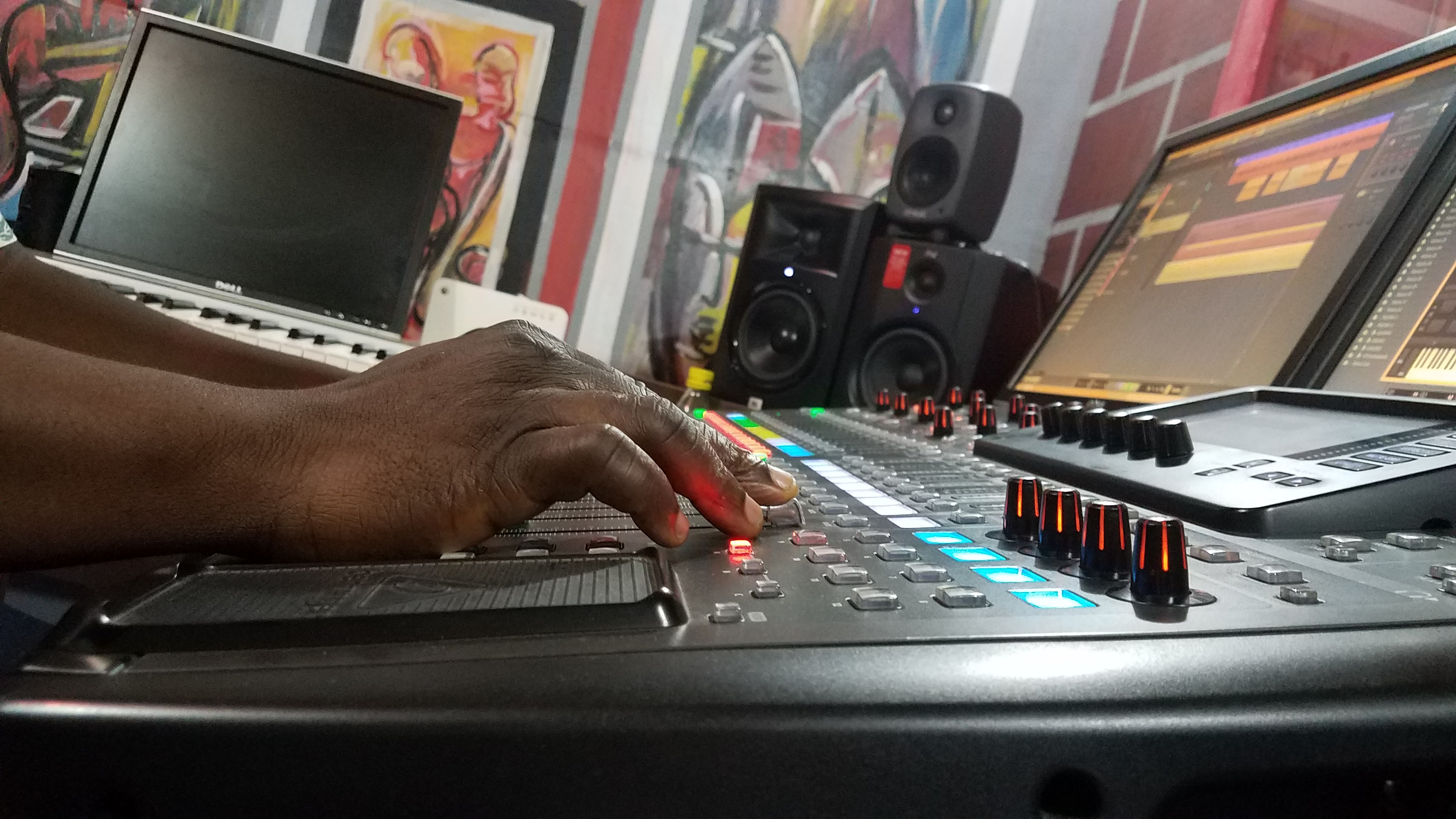 Up flow of tune management through the use of the turn table. This is an image of "African people at work" from Ghana